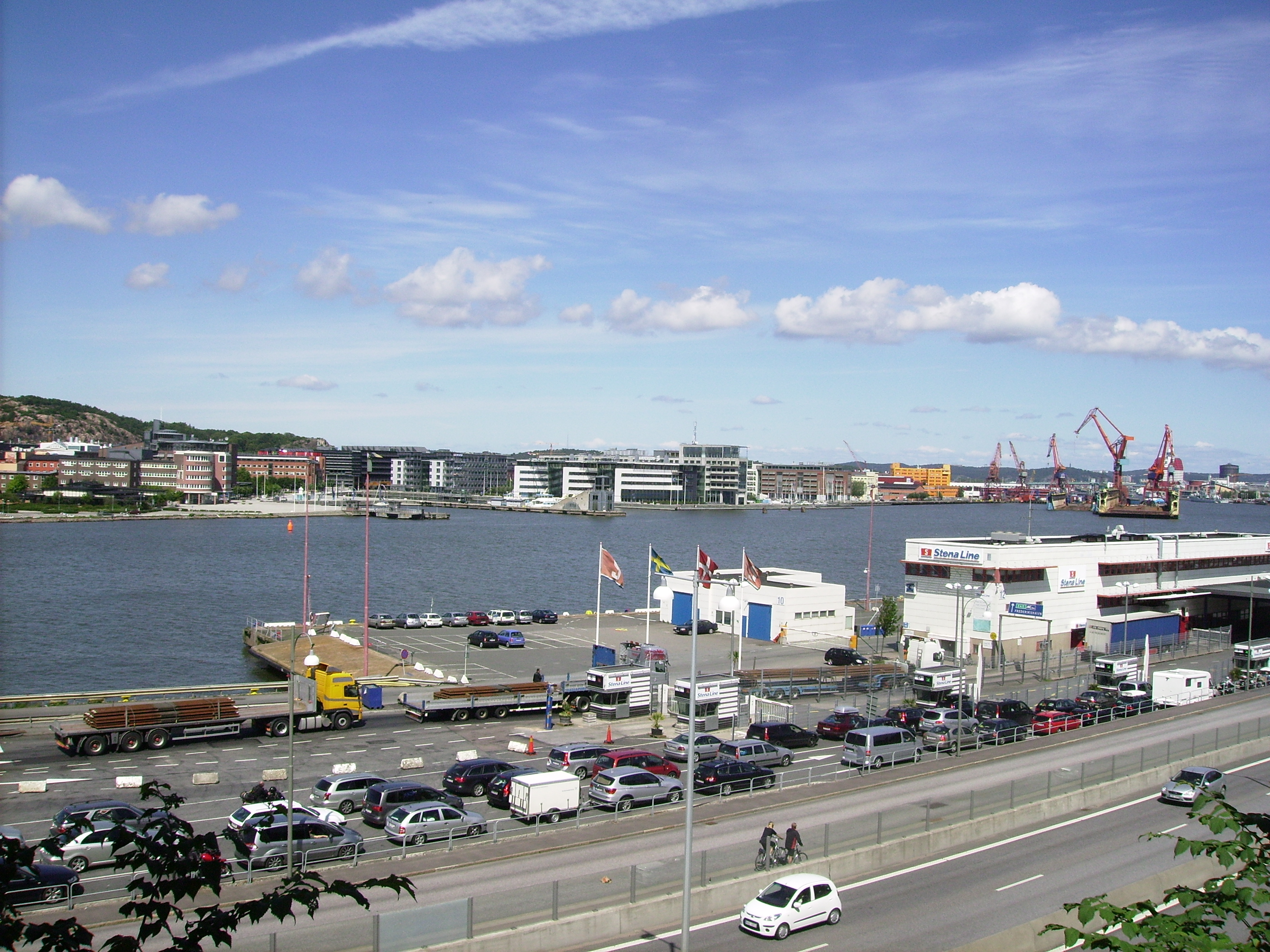 Picture of Masthuggskajen in Gothenburg.